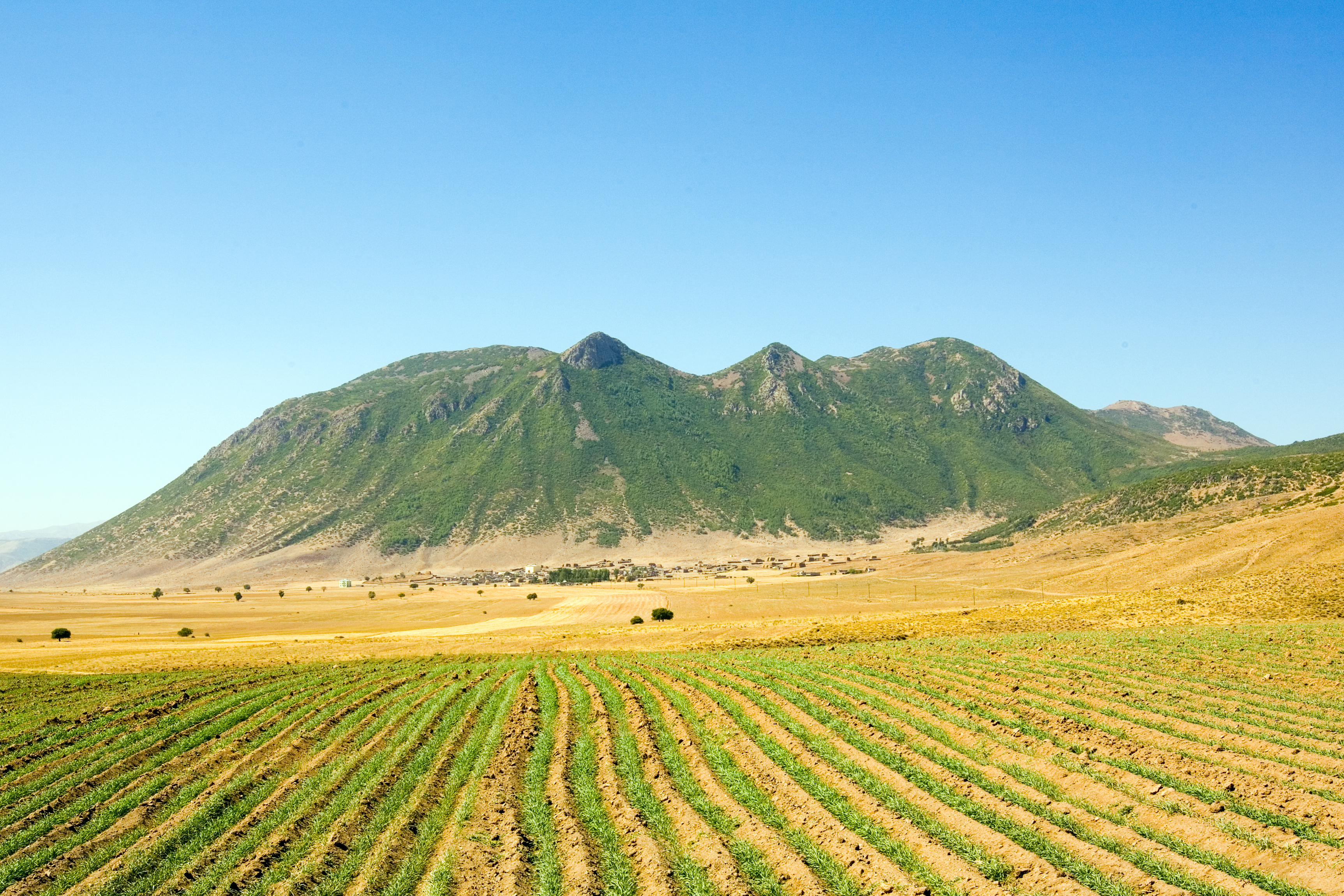 View from the East